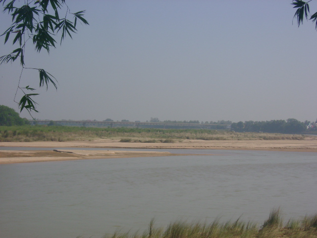 View of the Ajay River from Mangalchandi Temple